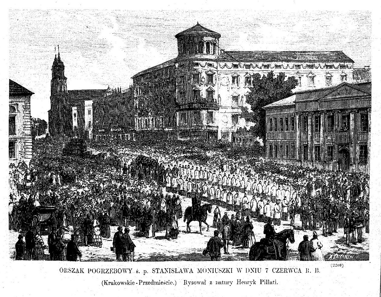 Stanisław Moniuszko's funeral procession on June 7, 1872, drawing by Henryk Pillati, published in the weekly Kłosy (1872, vol. 14, no. 364, p. 1)...